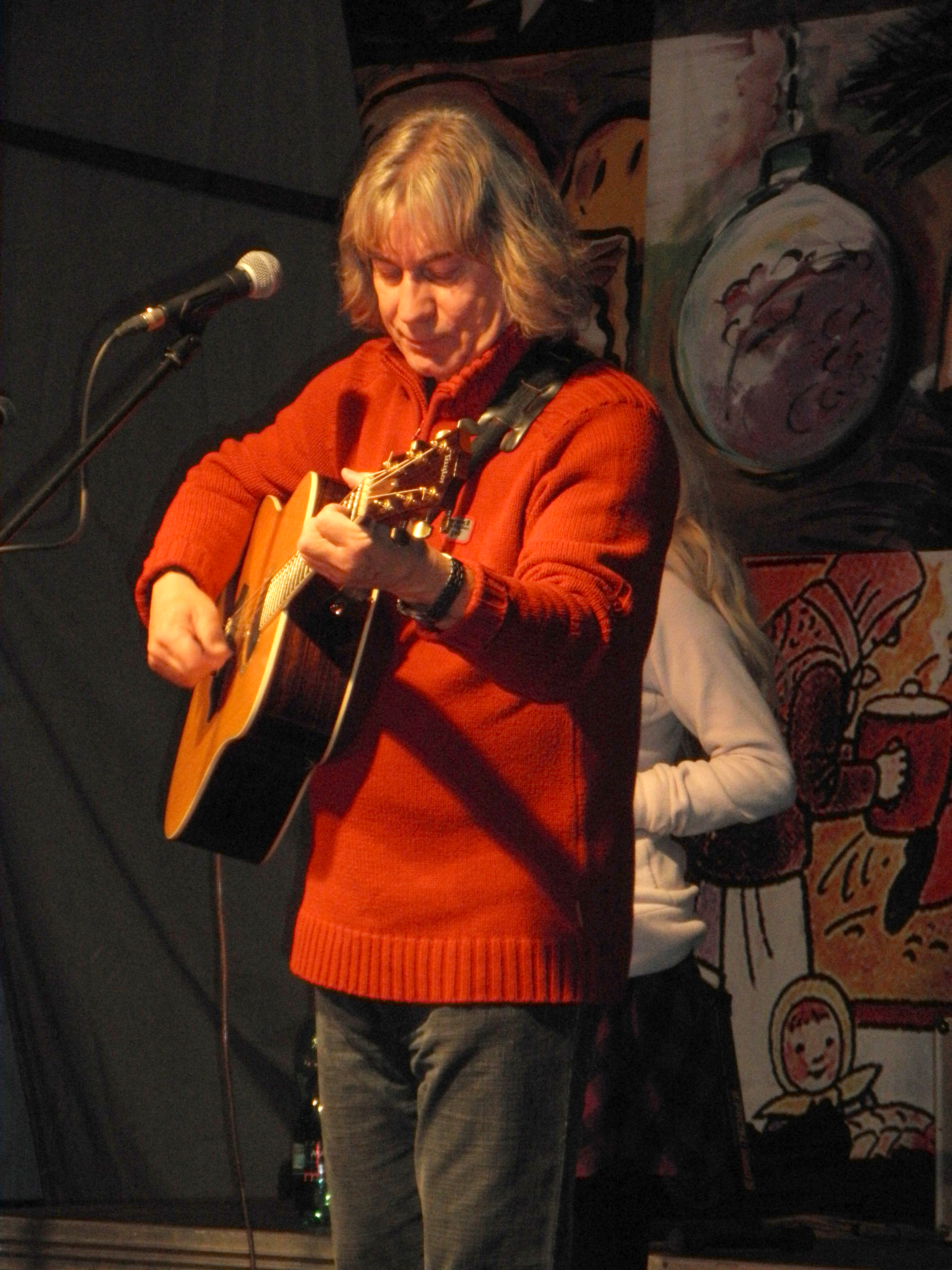 Photo of Pavel Lohonka (Pavel Žalman Lohonka, abbreviated as Žalman), in Olomouc.